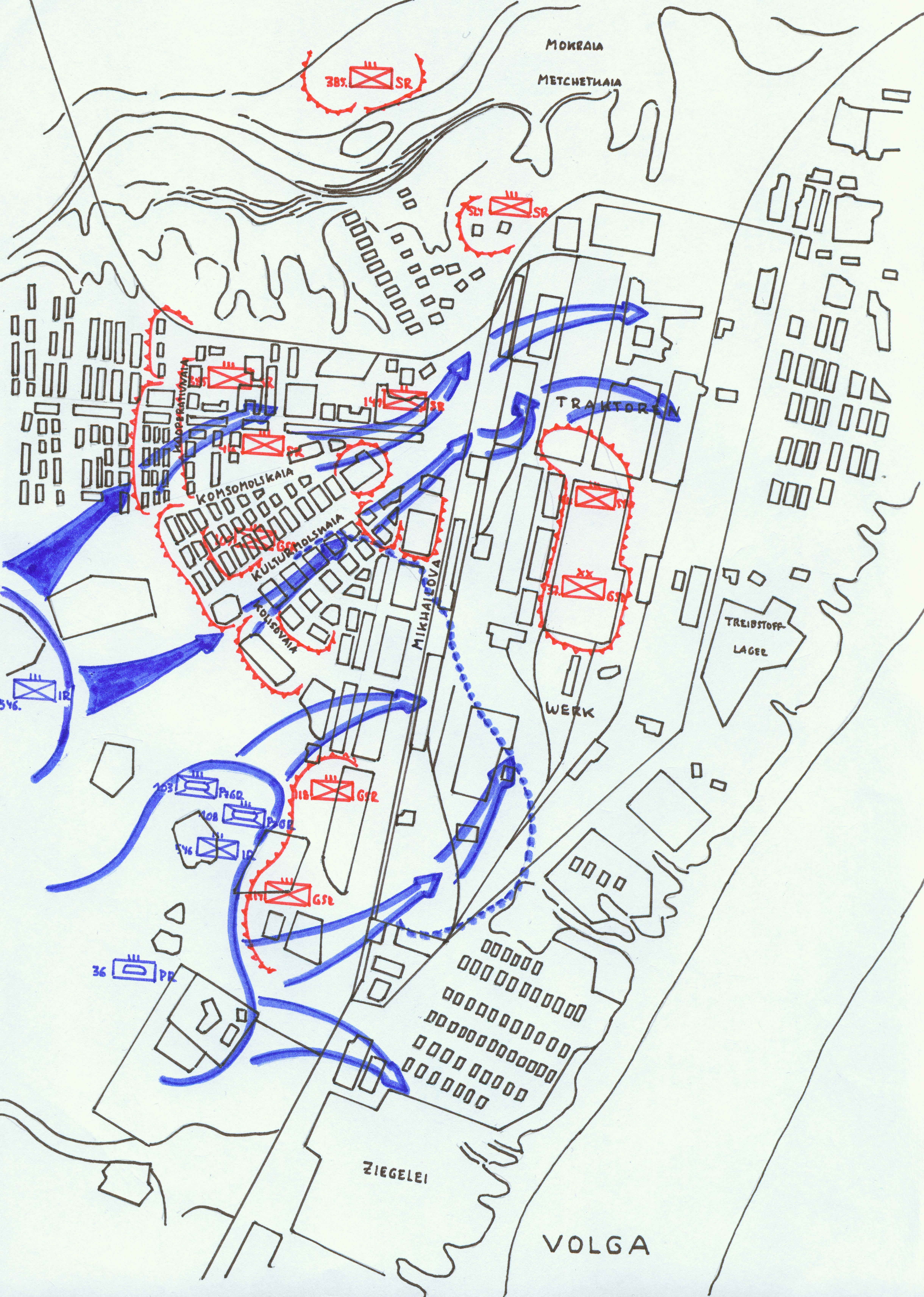 draw-out sketch according to Glantz